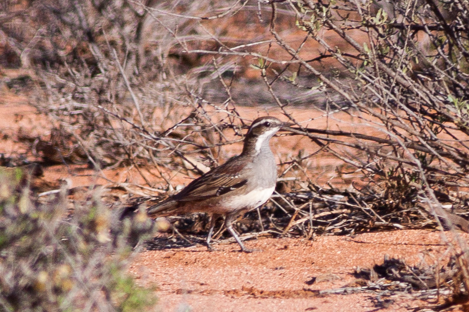 Gluepot Reserve, South Australia